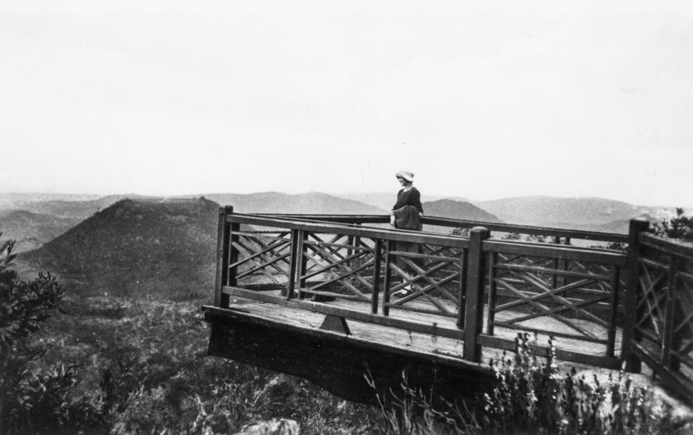 Lookout at Picnic Point, Toowoomba, Queensland, ca. 1928. Young woman looking at the view. (Reproduced from an original Red Arcade Postcard).